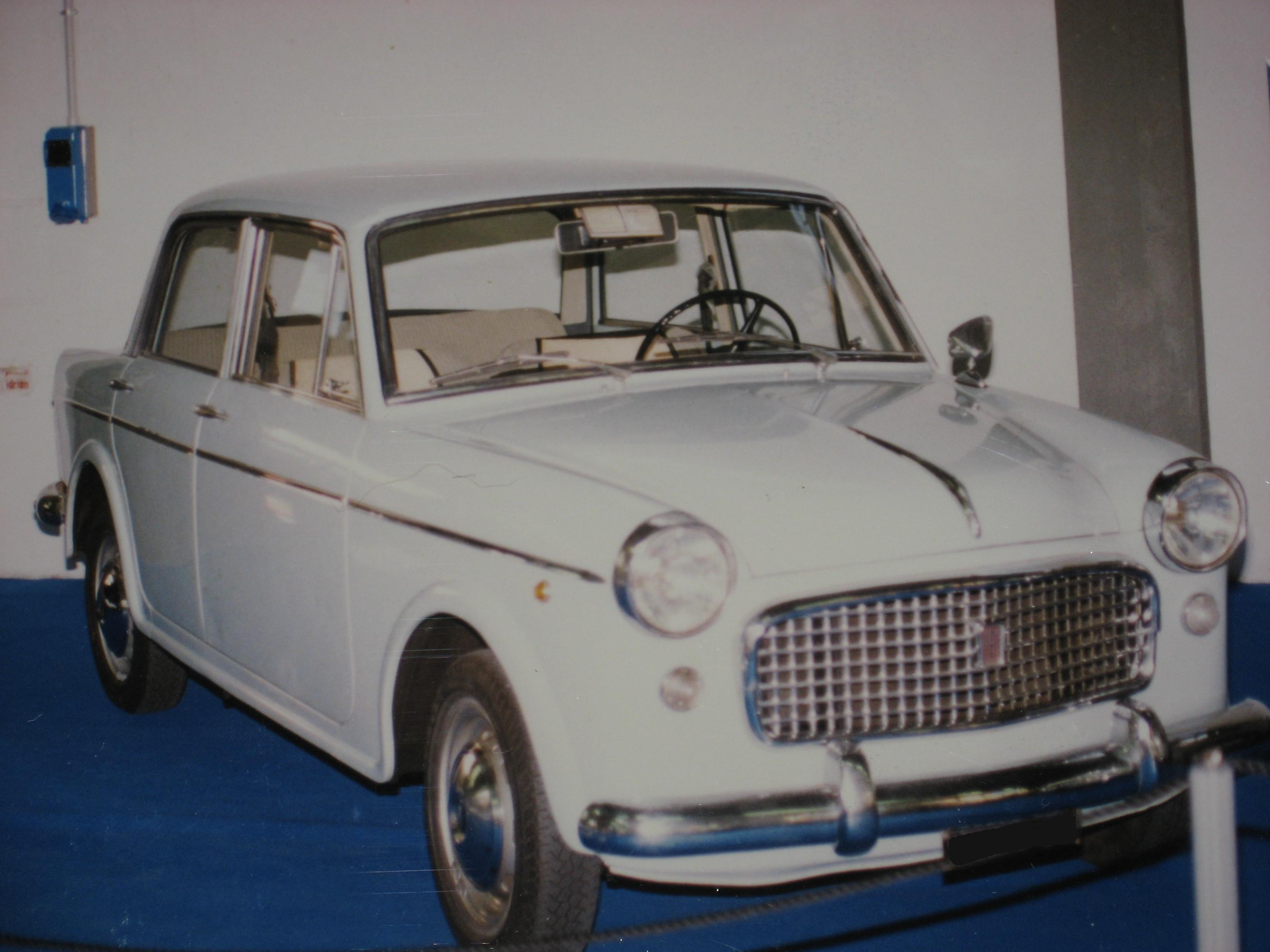 Subject: Fiat 1100 Special (1960) Author: Luc106 Date: February 1996 City/country: Genoa (Italy) Event: Autostory I release all rights in the public domain.